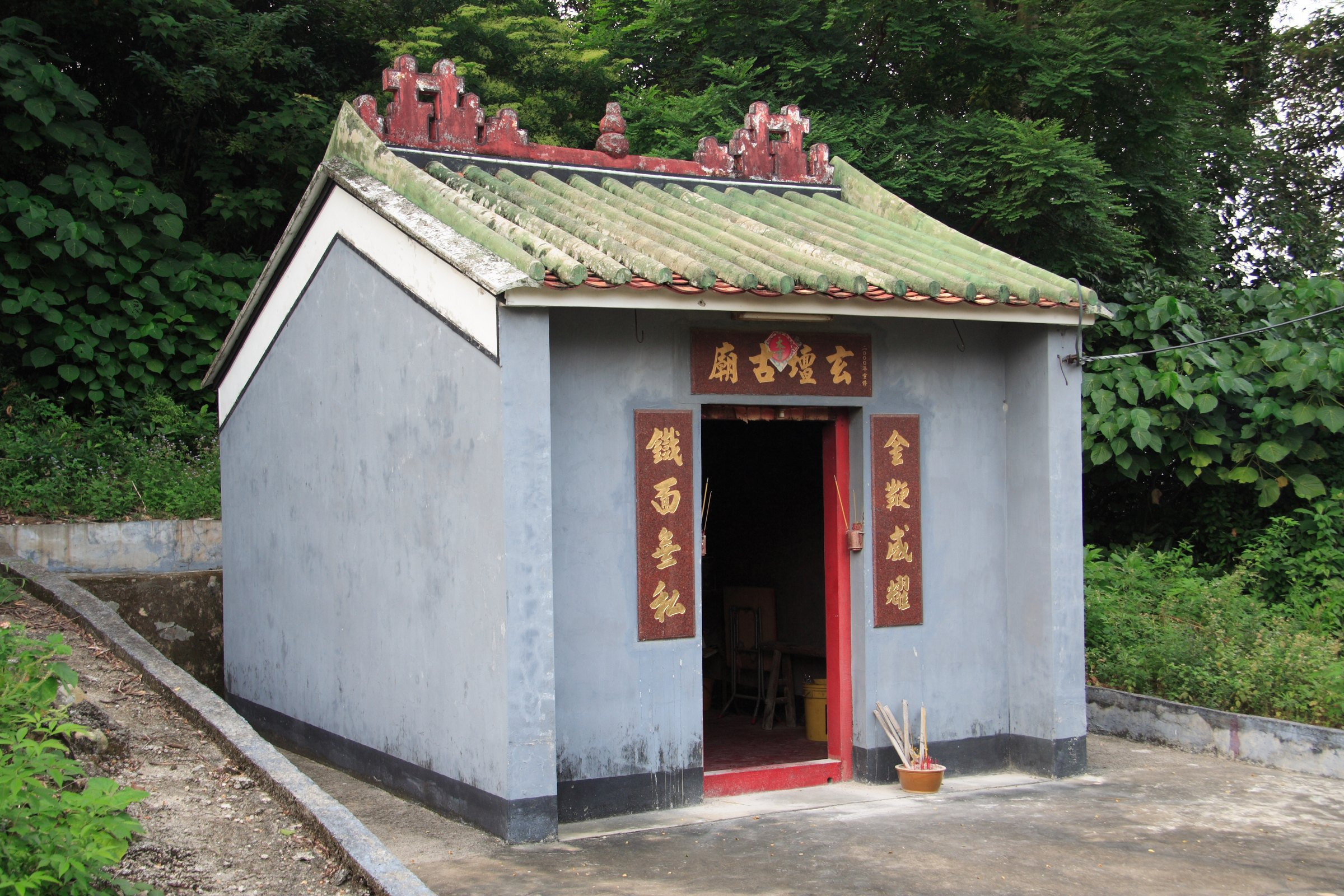 Hong Kong Tung Chung Shek Mun Kap Temple. Photo created by me.